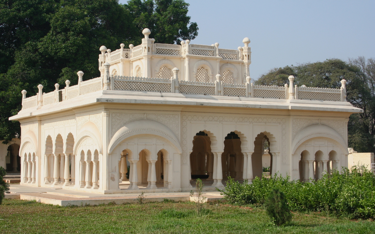 Tomb of Chanda Bibi (aka Mah Laqa Bai), Nizam-era Urdu poet and courtesan. Moula Ali, Hyderabad. Built c. 1790. Easter Sunday, Apr '12.